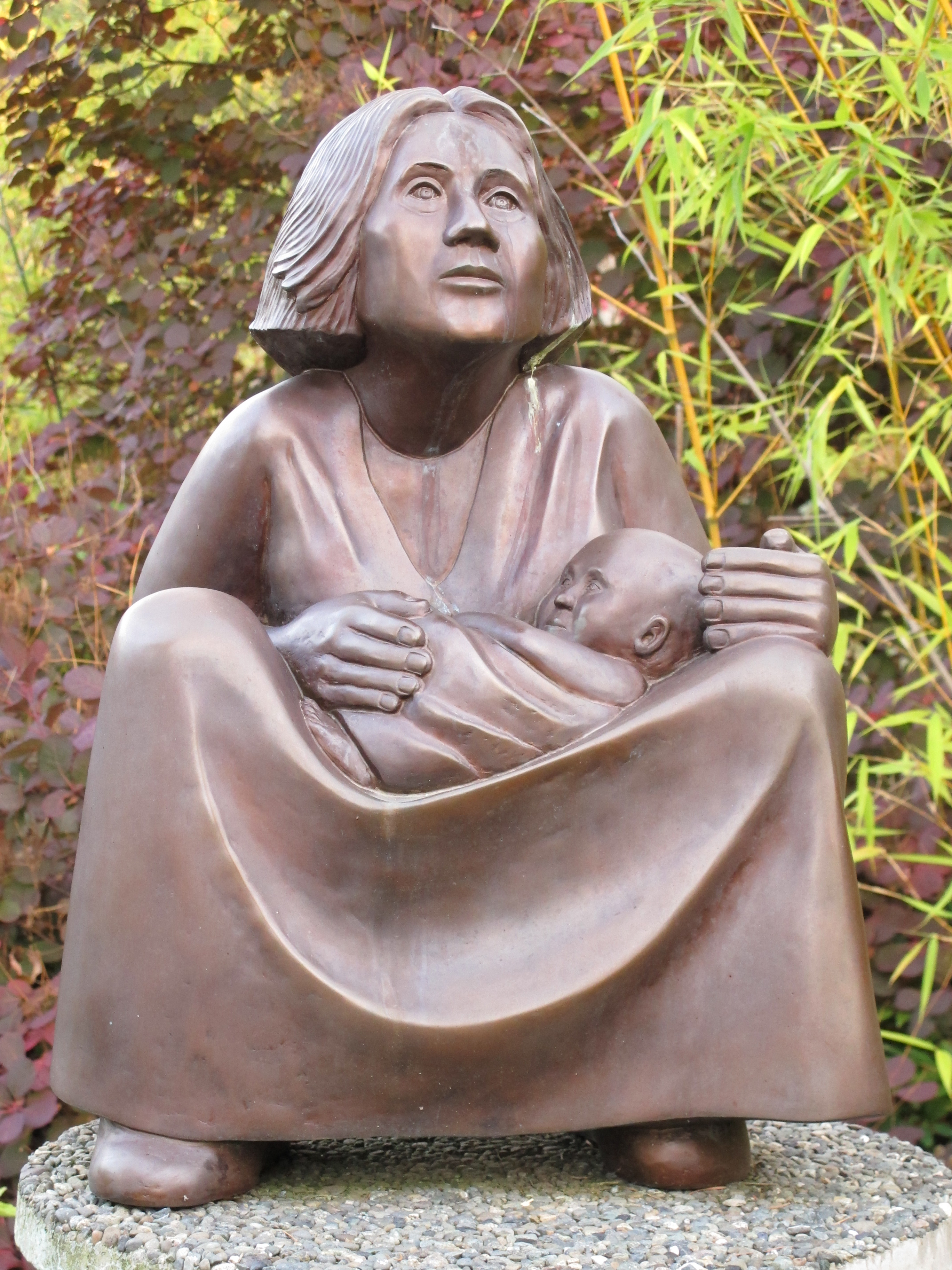 Sculpture by artist Diana Dean located in her garden on Saltspring Island